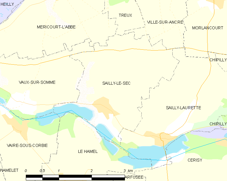 Map of French municipality Sailly-le-Sec